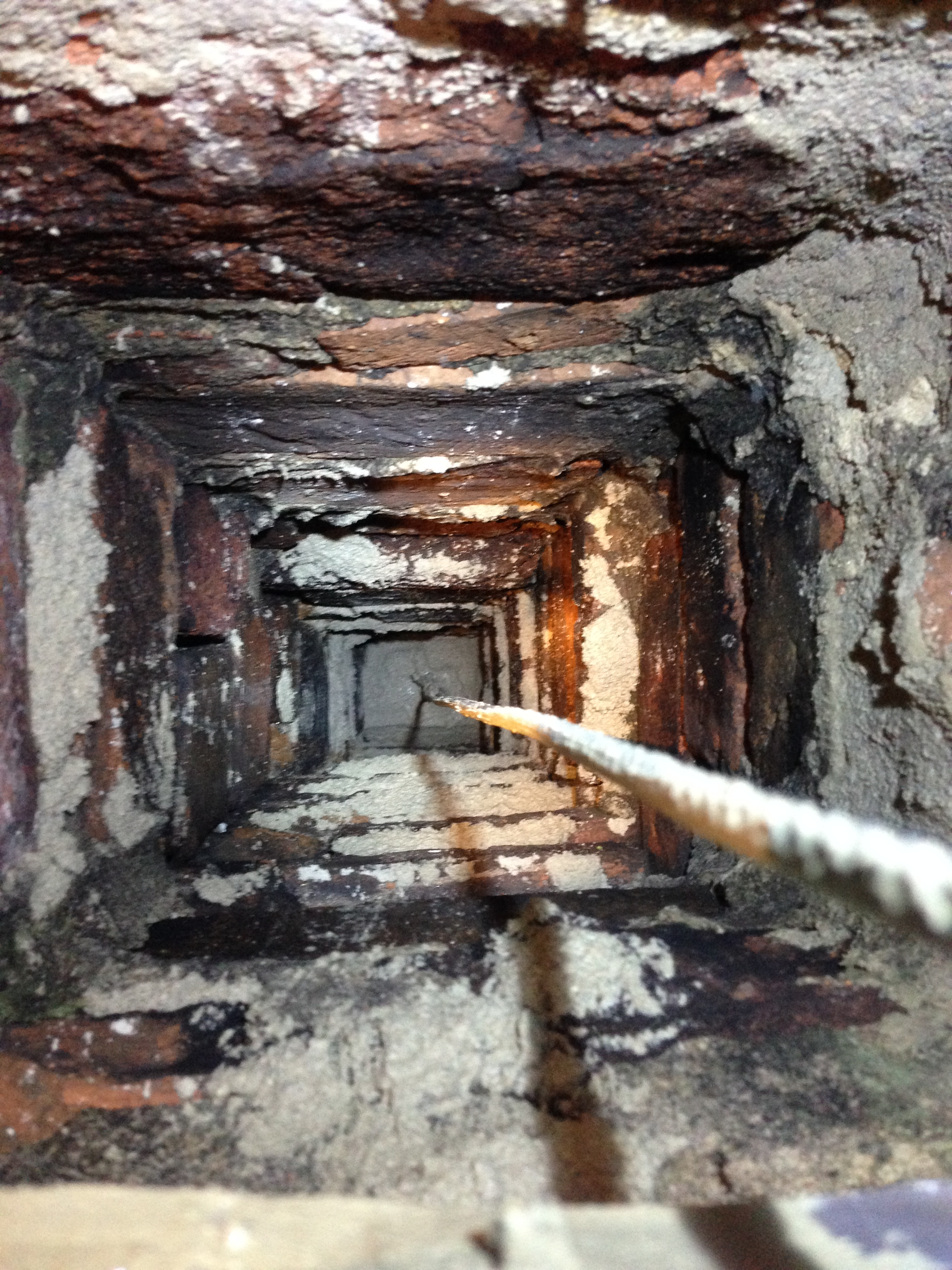 Chimney slip forming. Mortar is poured down the slip forming pillow, that is being dragged upwards using a winsch.